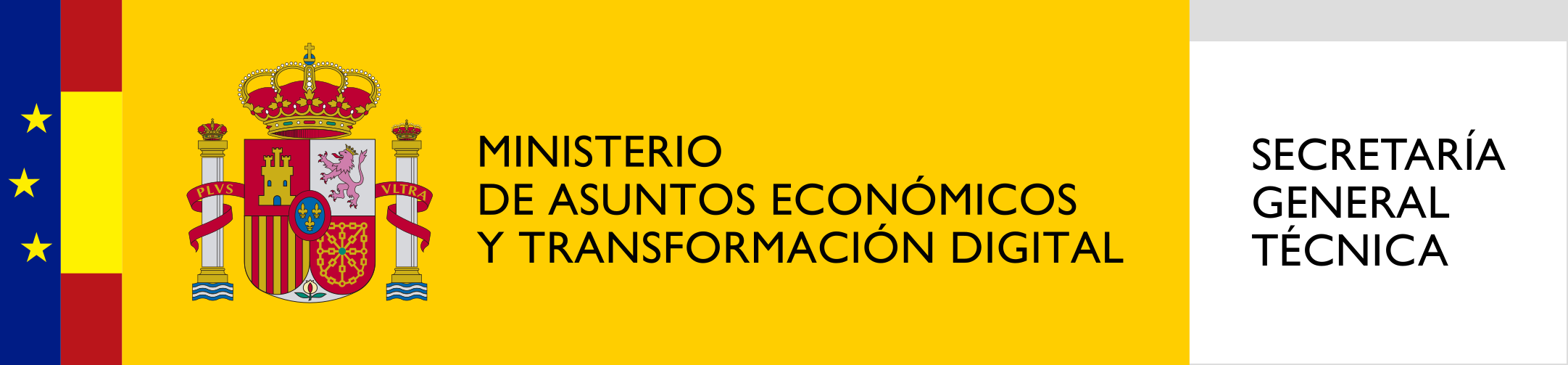 Logo of the General Technical Secretariat of the Ministry of Economy and Business.